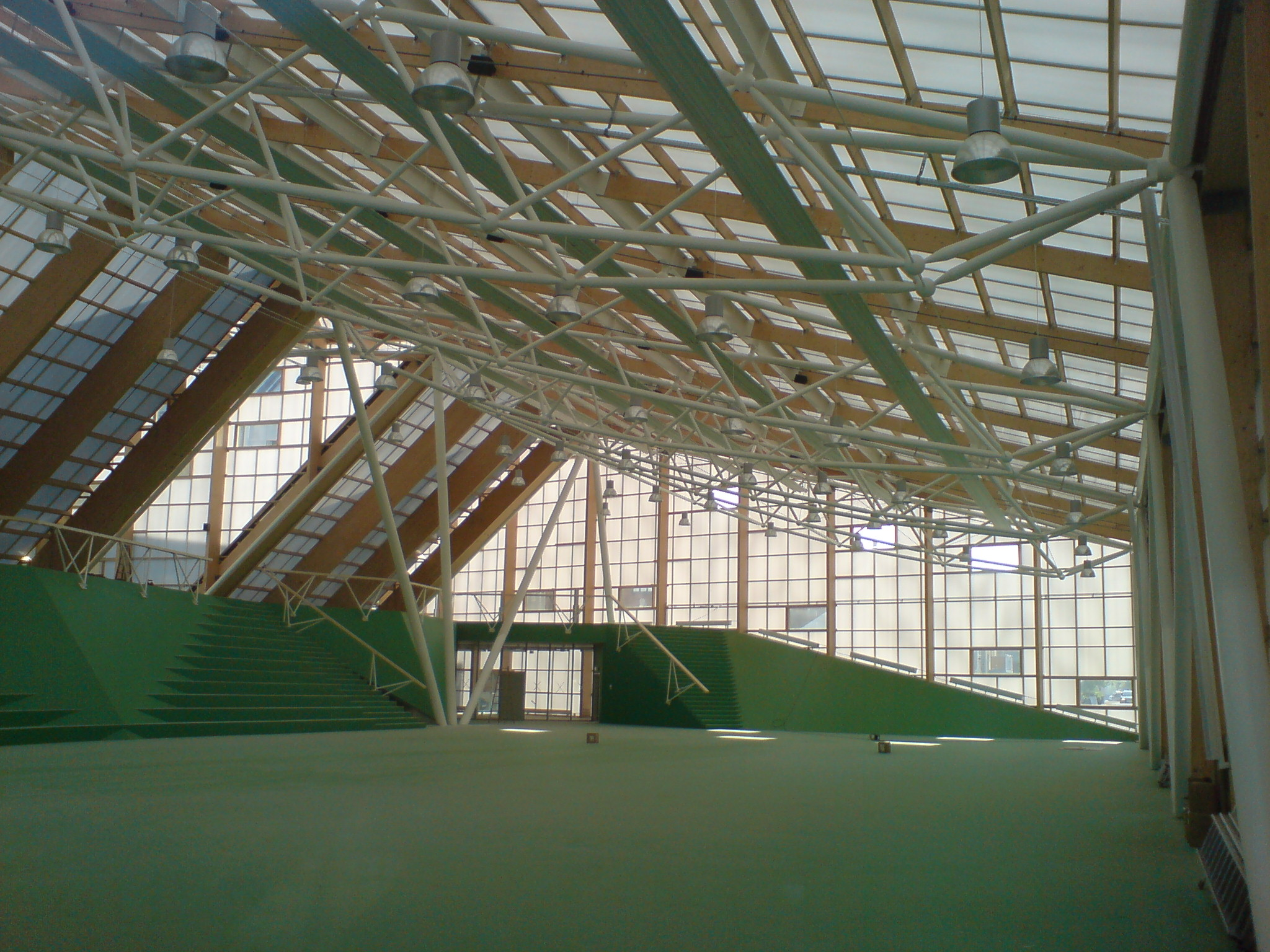 Prismen sports venue in the Amager Øst district of Copenhagen, Denmark